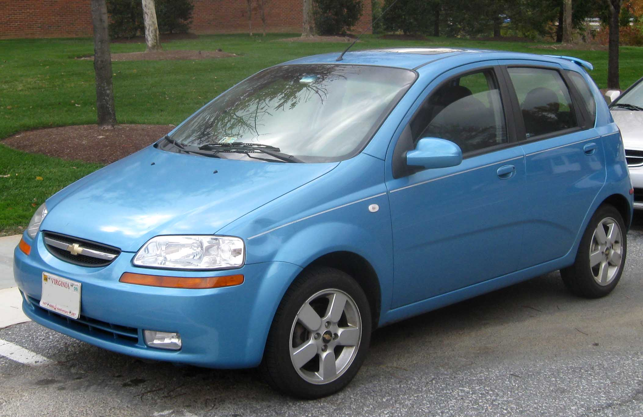 2004-2006 Chevrolet Aveo photographed in College Park, Maryland, USA.